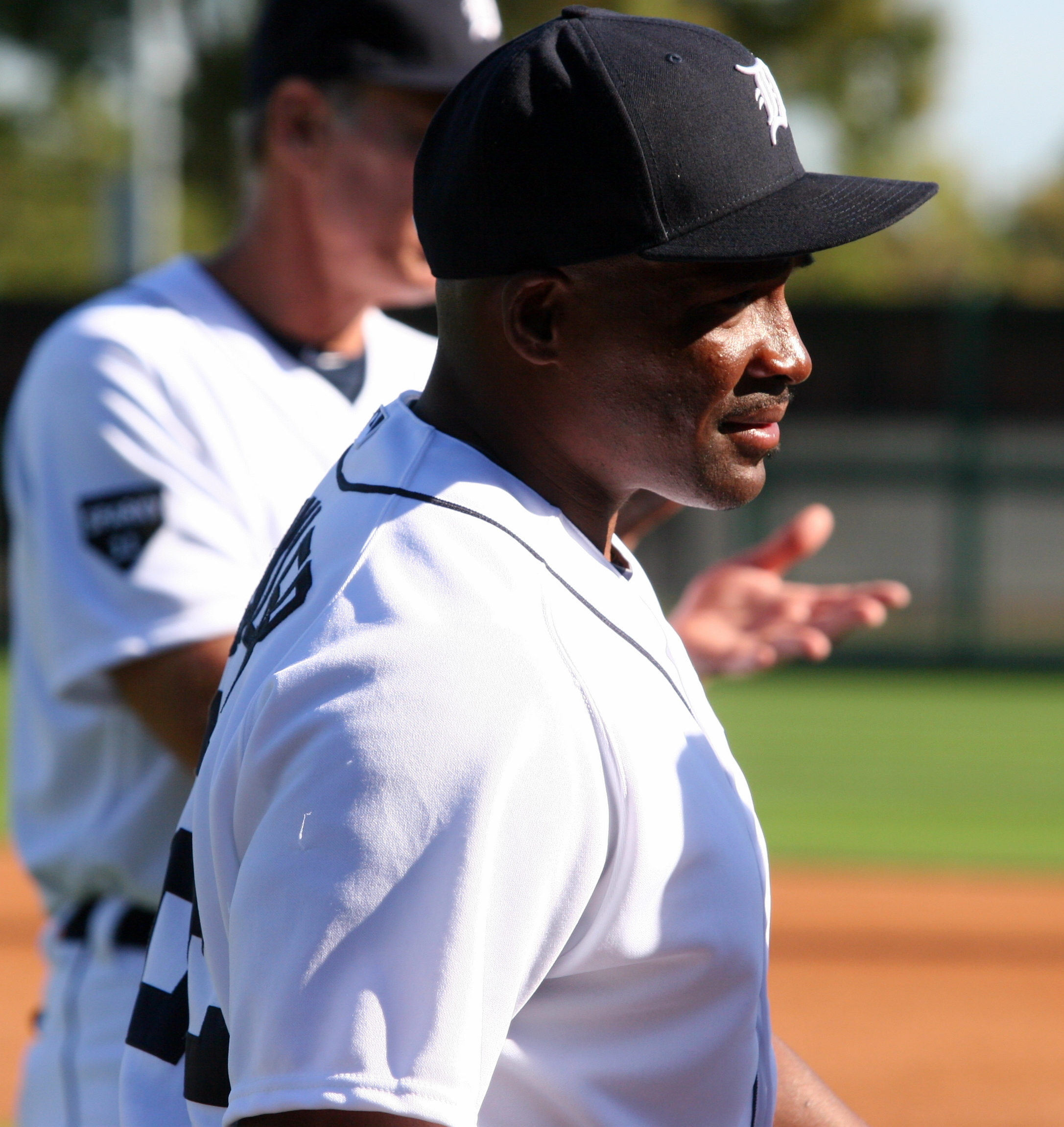 Milt Cuyler in a Detroit Tigers uniform at the 2012 Detroit Tigers Fantasy Camp in Lakeland, Florida